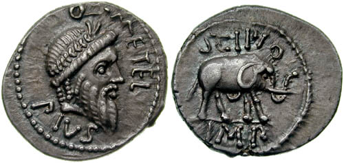 Denarius issued by Quintus Caecilius Metellus Pius Scipio Nasica as Imperator in 47 or 46 BC, from traveling military mint in North Africa. On obverse, laureate head of Jupiter with beard and hair in ringlets. On reverse, an elephant, a frequent image on Roman coins to represent Africa